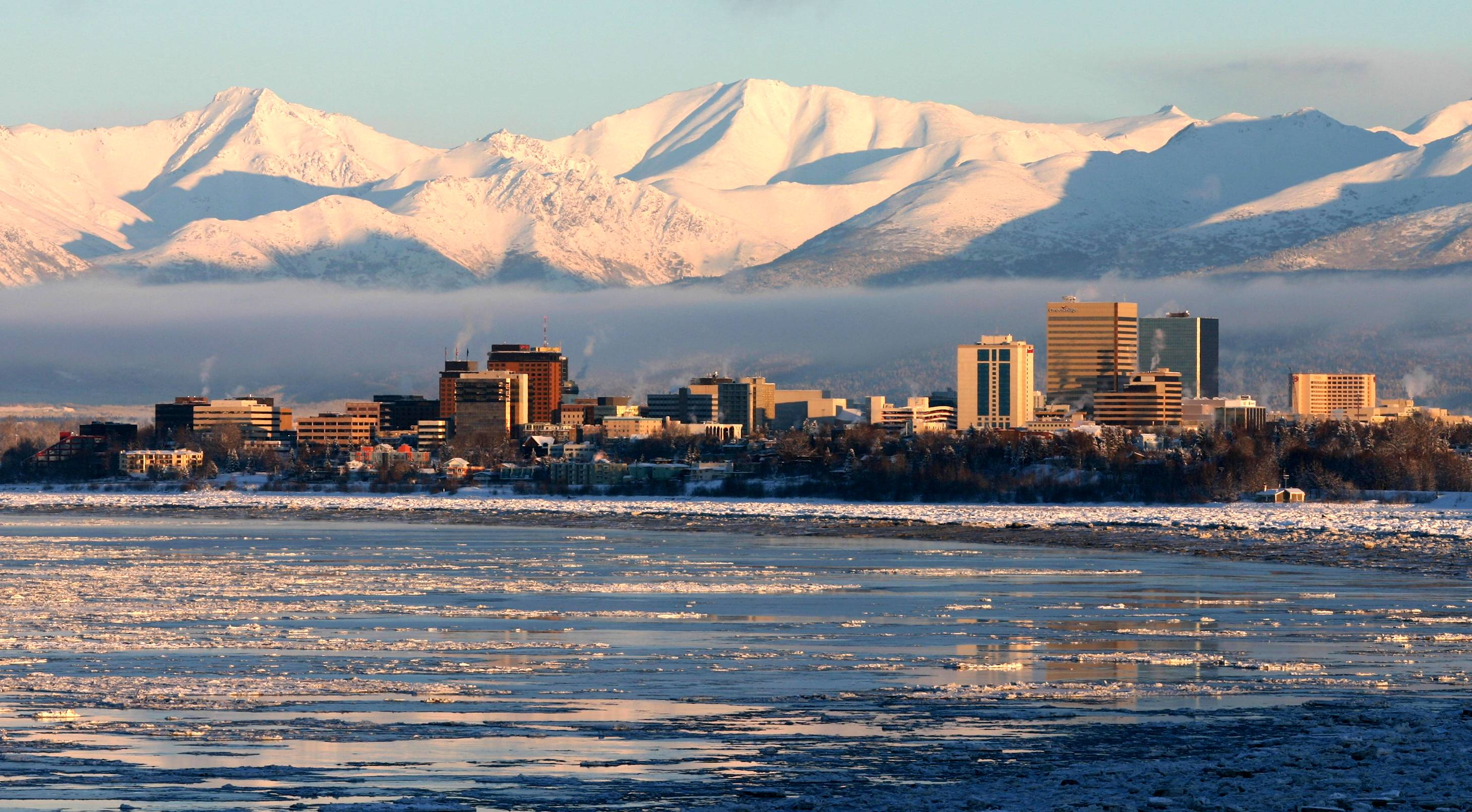 Anchorage (Alaska, USA). Taken from Earthquake Park on a clear, very cold day in January 2008